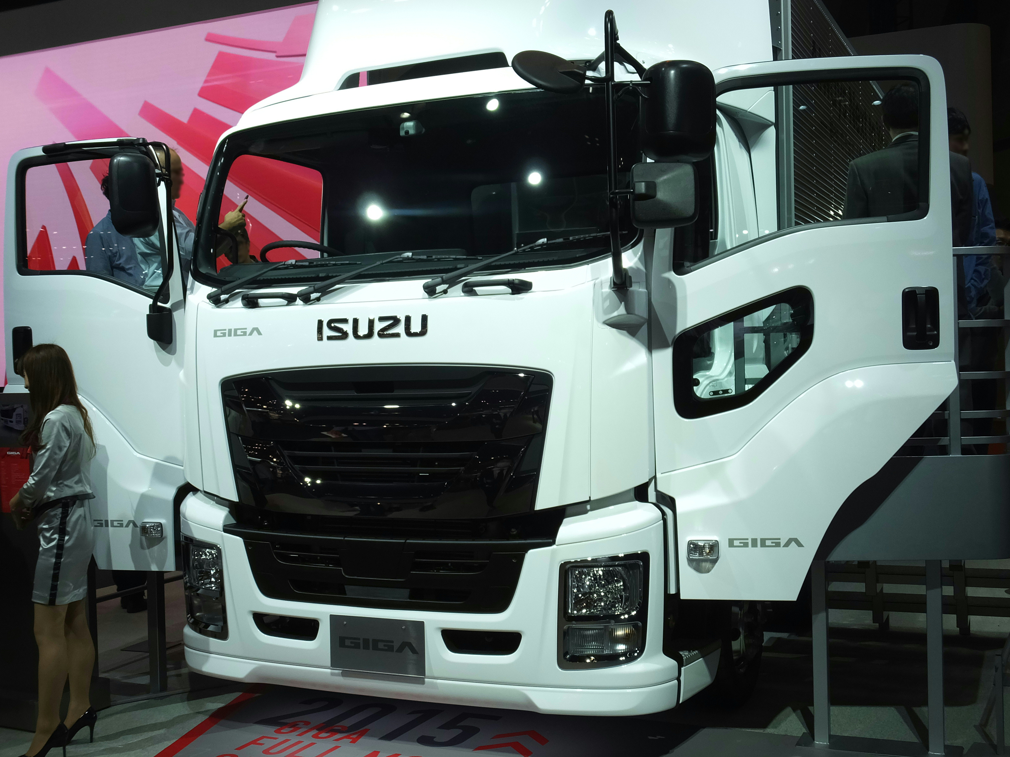 ISUZU C Series / GIGA, 2nd Generation